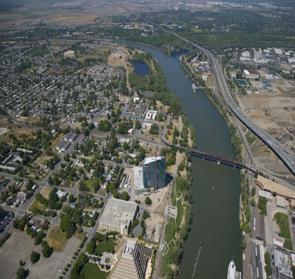 West Sacramento, California